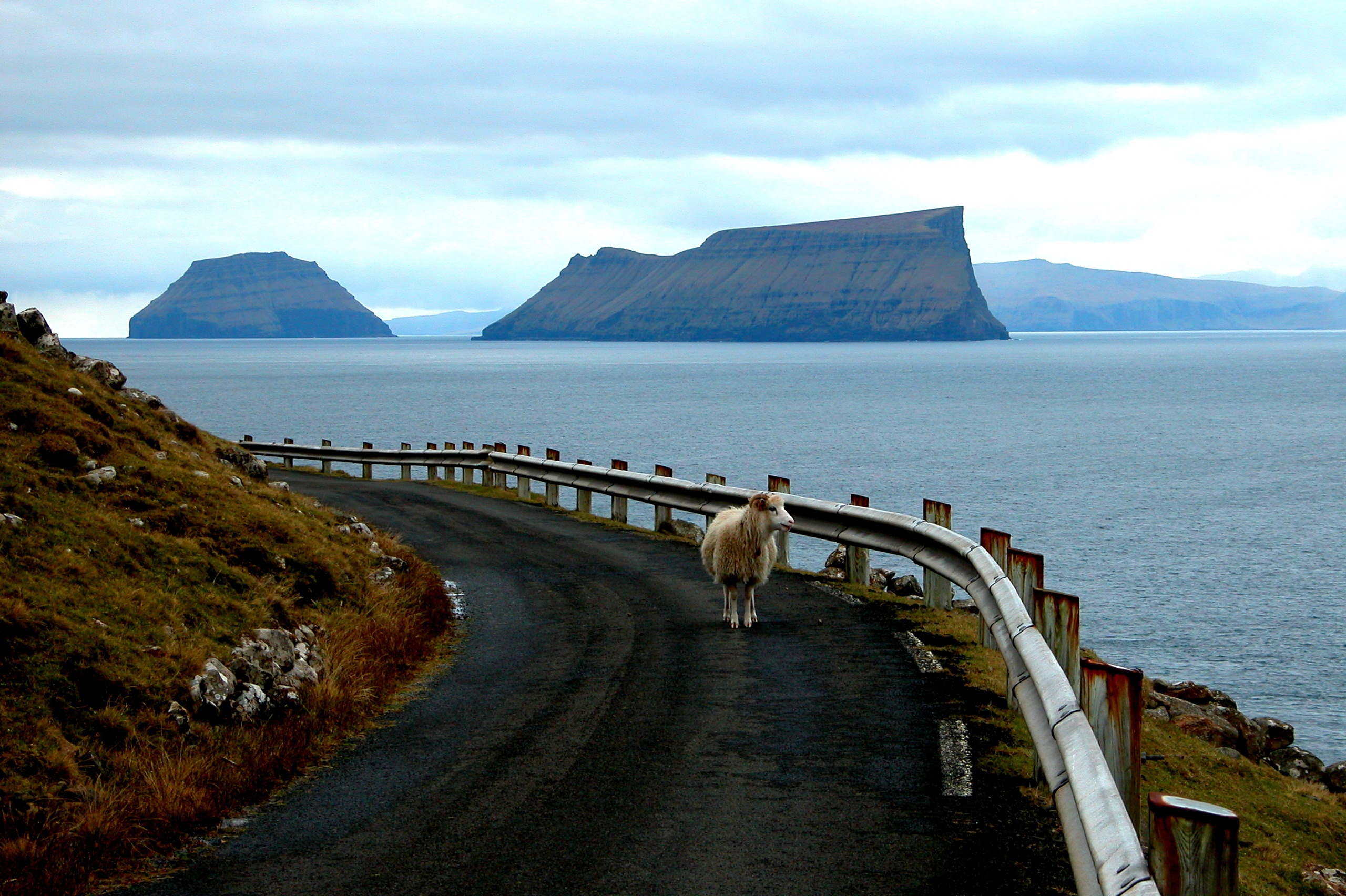 Stóra Dímun, seen from Skarvanes